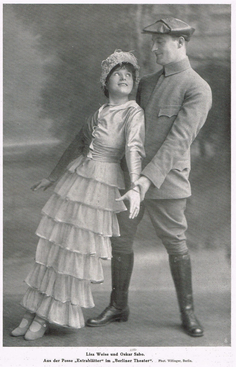 Lisa Weise und Oscar Sabo in der Posse Extrablätter im Berliner Theater, 1914